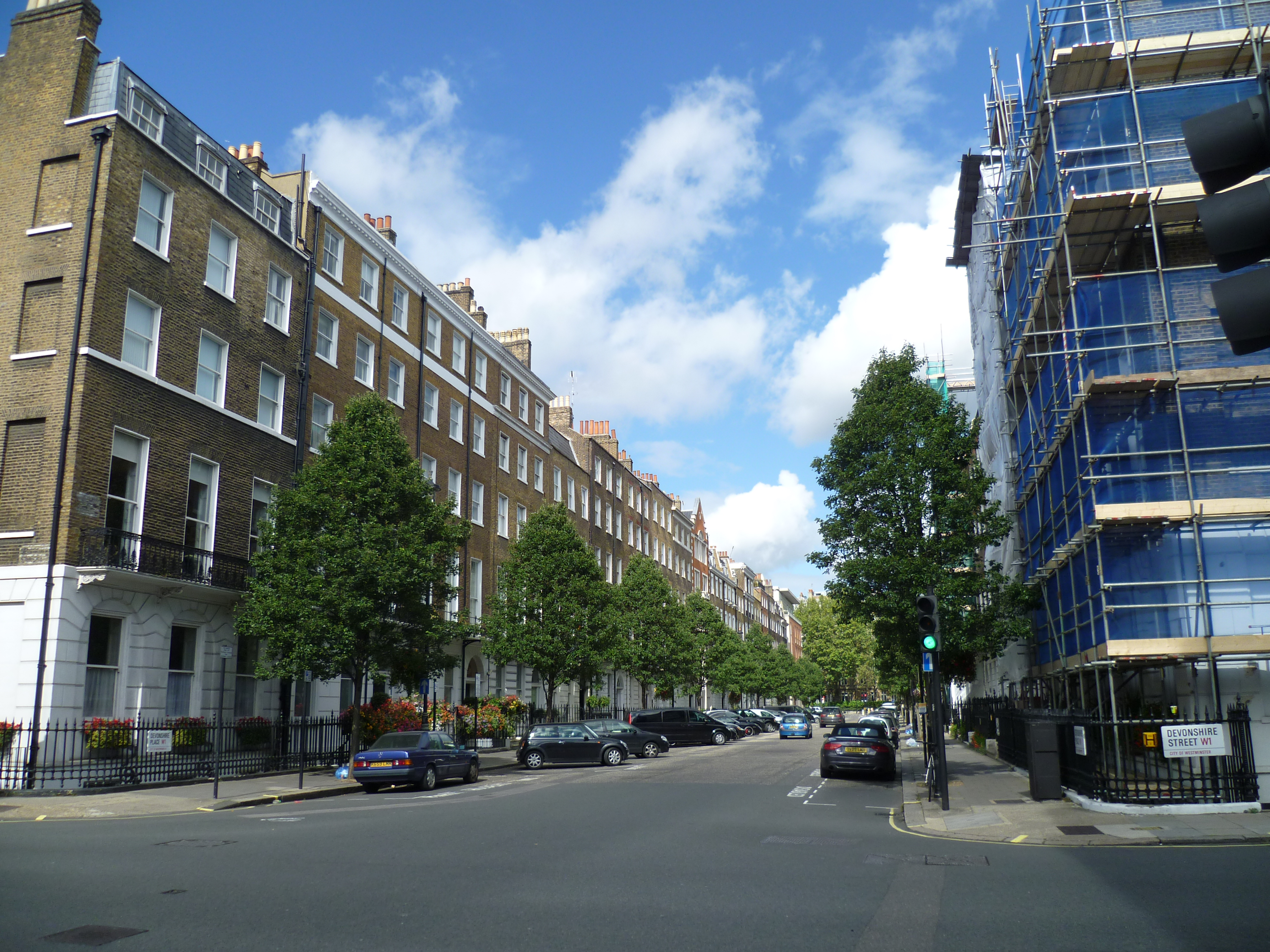 Royal Philatelic Society London